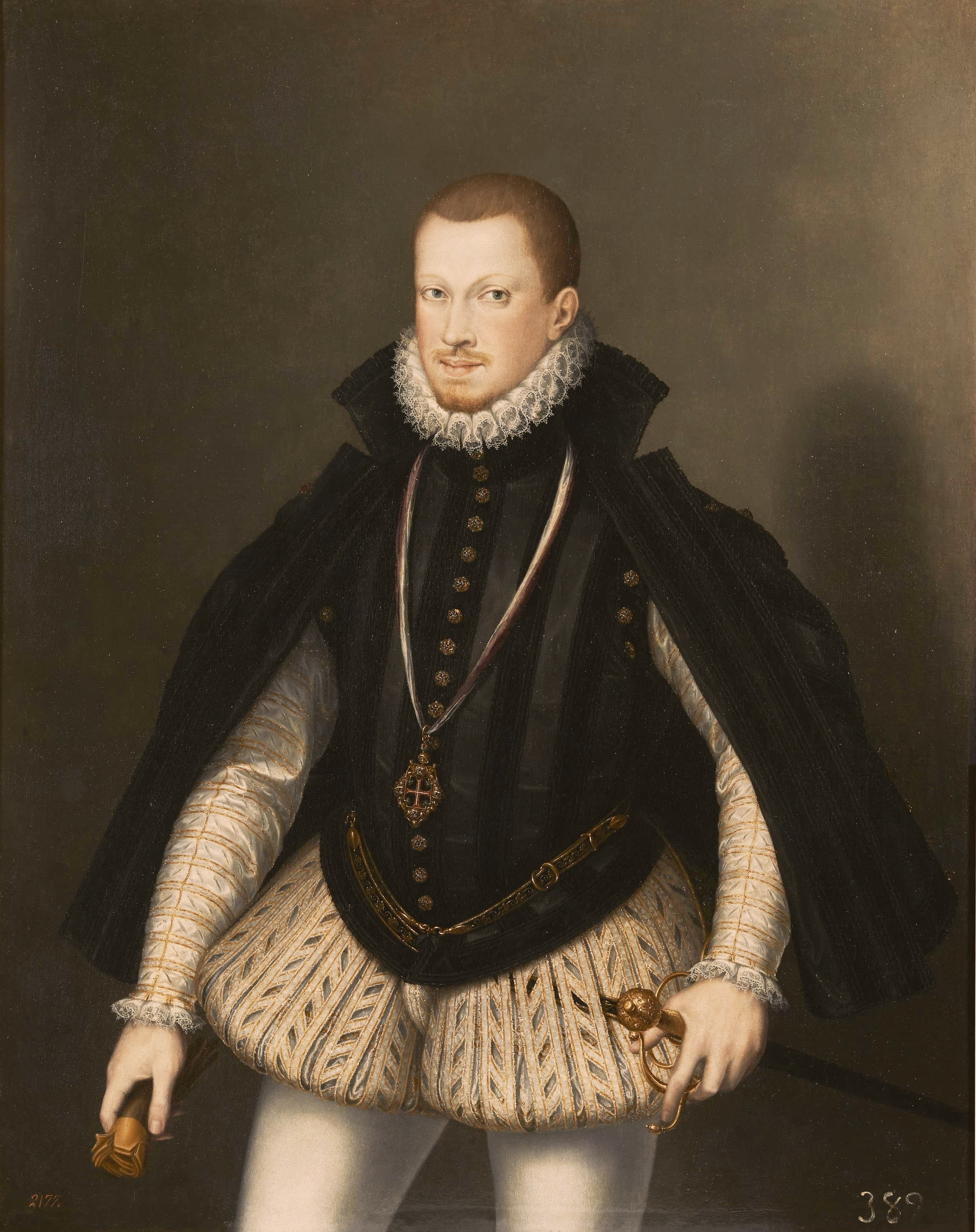 King Sebastian of Portugal (1554-1578).